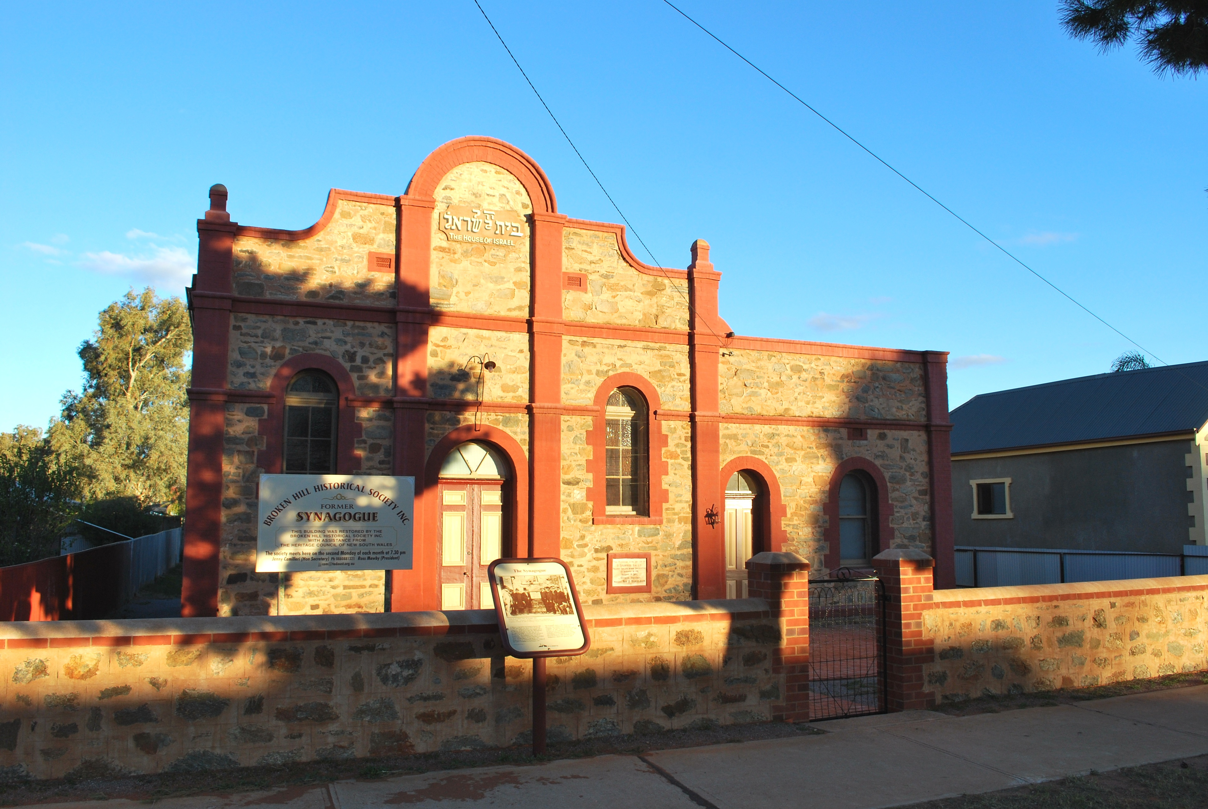 Former synagogue at Broken Hill, New South Wales, now home to the local historical society.